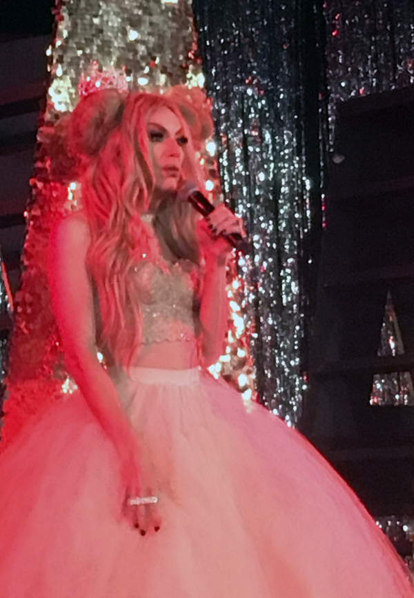 Drag performer Alaska Thunderfuck while on tour with The AAA Girls. Thunderfuck is introducing her new song, "Valentina" during a concert. The concert was held at the Oriental Theater in Denver, CO, on October 8, 2017.